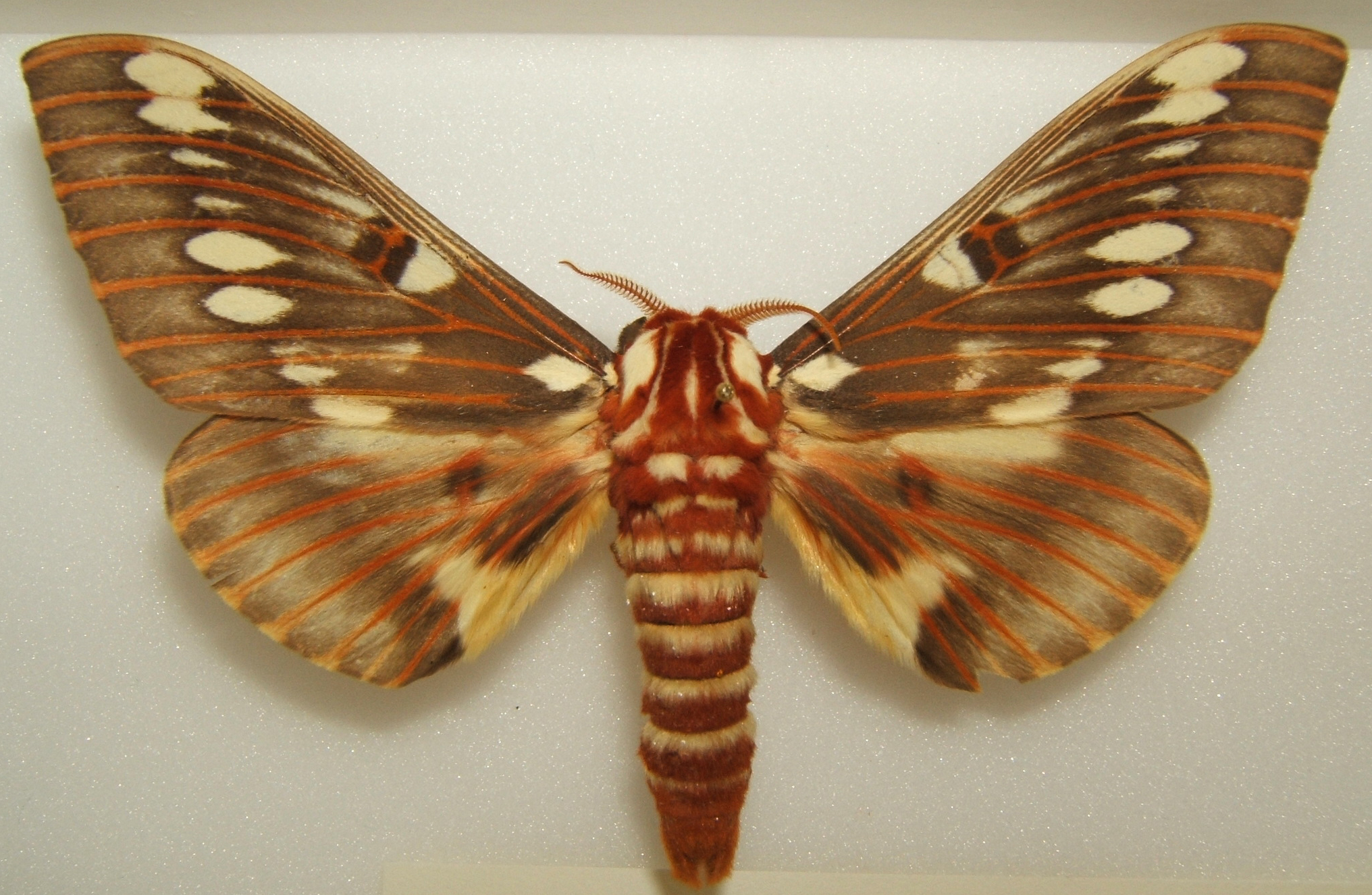 Citheronia splendens adult male taken by Shawn Hanrahan at the Texas A&M University Insect Collection in College Station, Texas.